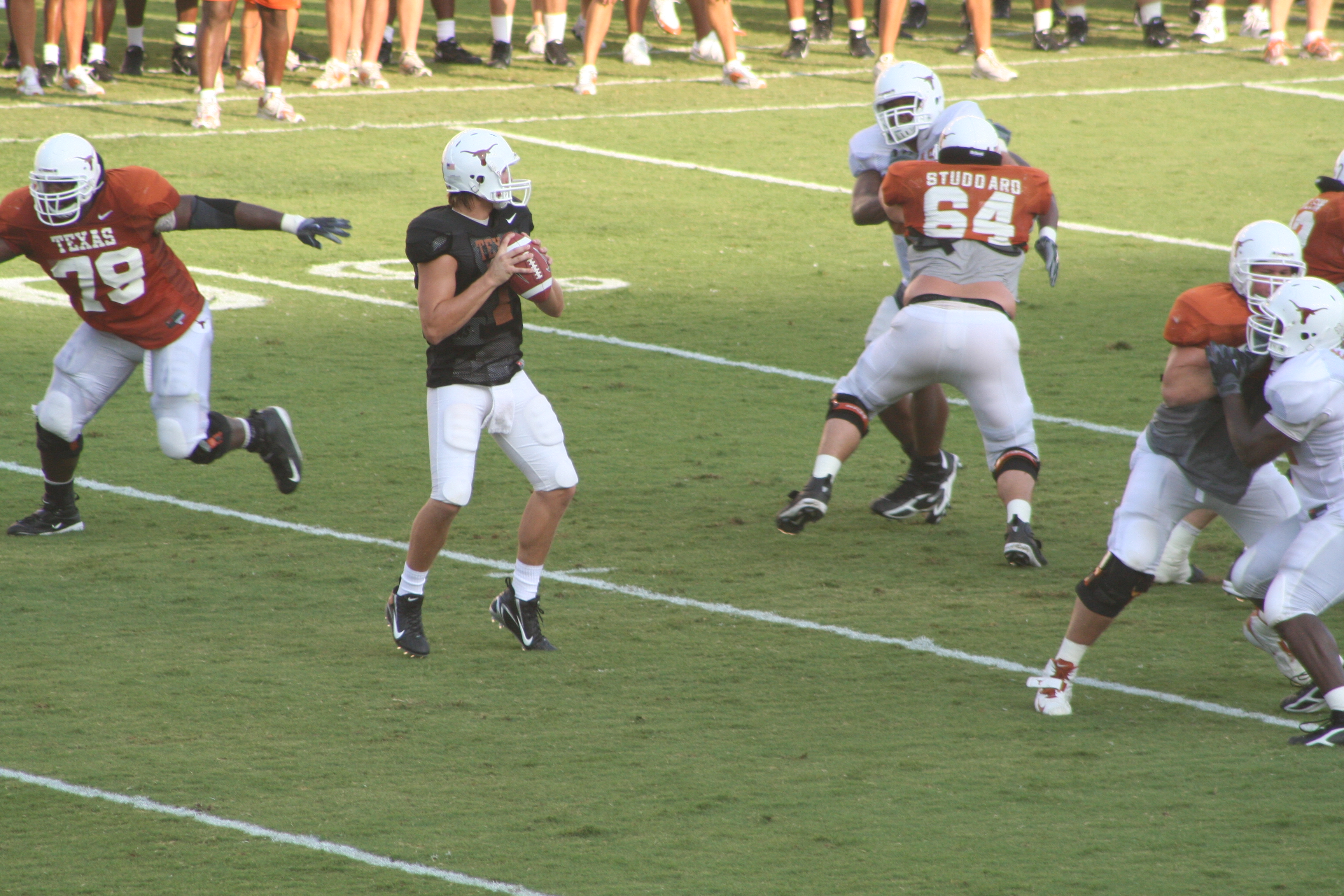 College football game - 2006 fall scrimmage of University of Texas at Austin - UT quarterback Jevan Snead drops back to pass